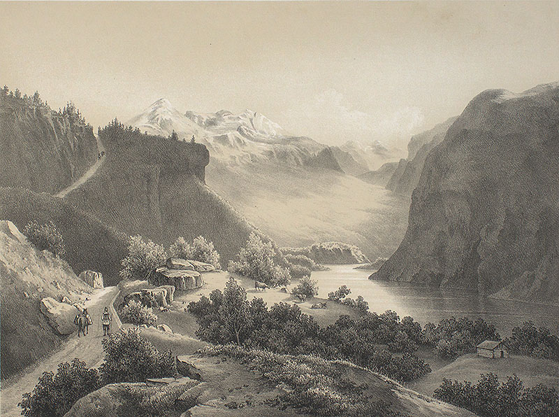 Pictures from the work "Norge fremstillet i Tegninger" from 1848 by Christian Tønsberg.